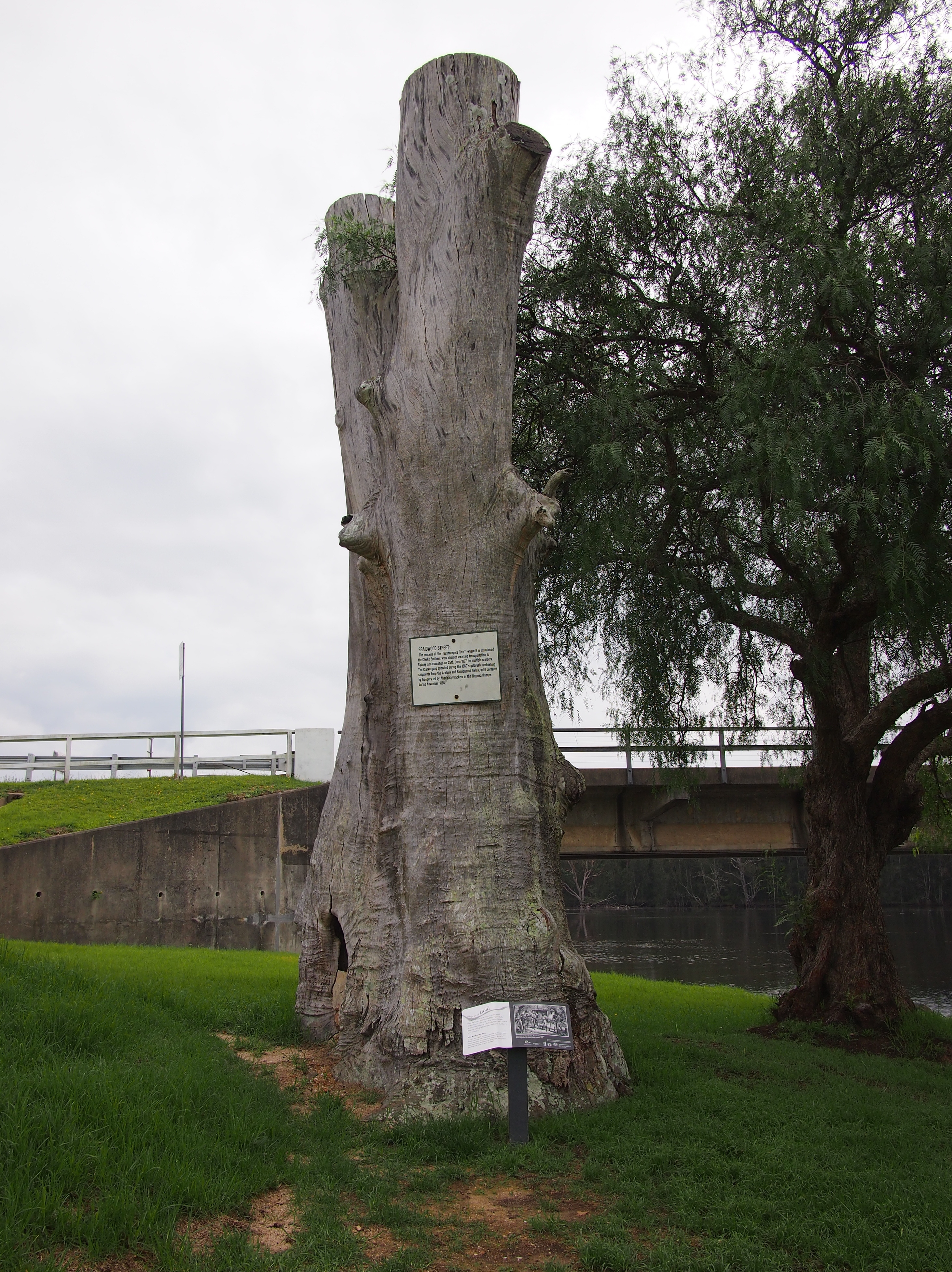 The 'Bushrangers Tree' in Nelligen. According to a sign fixed to the tree, "it is maintained" that the Clarke brothers from the Clarke bushranging gang were chained to the tree while they awaited shipment to Sydney after being captured in November 1866.